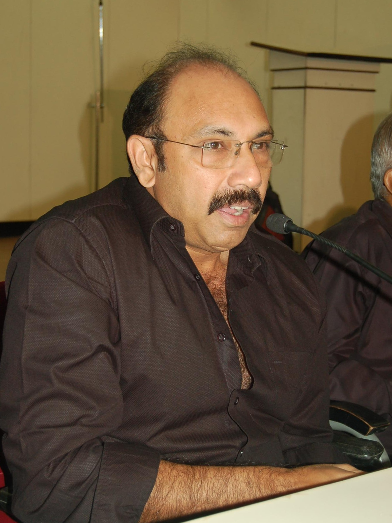 Actor